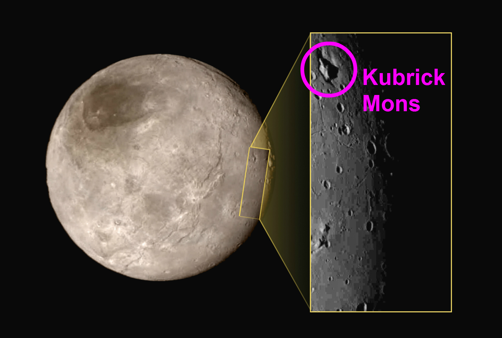 July 16, 2015 - M15-109 NASA to Release New Pluto Images, Science Findings at July 17 NASA TV Briefing IMAGE CAPTION: New image of an area on Pluto's largest moon Charon This new image of an area on Pluto's largest moon Charon has a captivating feature -- a depression with a peak in the middle, shown here in the upper left corner of the inset. The image shows an area approximately 240 miles (390 kilometers) from top to bottom, including few visible craters. The image was taken at approximately 6:30 a.m. EDT on July 14, 2015, about 1.5 hours before closest approach to Pluto, from a range of 49,000 miles (79,000 kilometers). FILE DESCRIPTION: NASA will hold a media briefing at 1 p.m. EDT Friday, July 17, to reveal new images of Pluto and discuss new science findings from Tuesday’s historic flyby. The briefing will be held in James E. Webb Auditorium at NASA Headquarters, located at 300 E St. SW in Washington. NASA Television and the agency's website will carry the briefing live. Participants in the briefing will be: Jim Green, director of Planetary Science at NASA Headquarters in Washington Alan Stern, New Horizons principal investigator at Southwest Research Institute (SwRI) in Boulder, Colorado Randy Gladstone, New Horizons co-investigator at SwRI in San Antonio Jeffrey Moore, New Horizons co-investigator at NASA’s Ames Research Center in Moffett Field, California Fran Bagenal, New Horizons co-investigator, University of Colorado, Boulder Media may participate by phone. To join the briefing by phone, reporters must email their name, affiliation and telephone number to Karen Northon at by noon Friday. Media and the public also may ask questions during the briefing on Twitter using the hashtag #askNASA. For NASA TV streaming video, scheduling and downlink information, visit: For more information on the New Horizons mission, including fact sheets, schedules, video and images, visit: -end